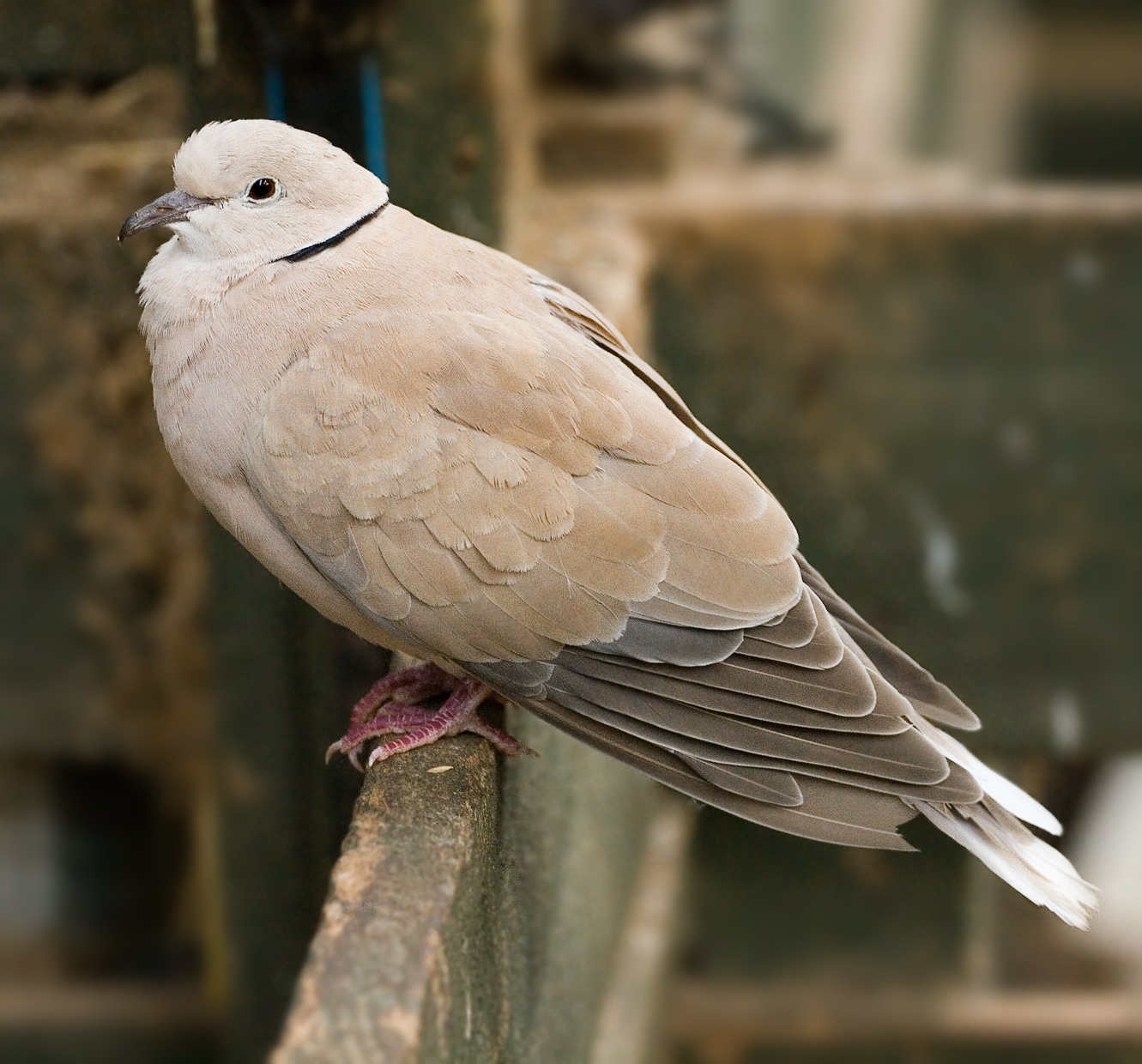 A Feral Barbary Dove in Tasmania, Australia. Also known as a Ringneck Dove or Ring Dove (Streptopelia risoria) Camera data Camera Canon EOS 400D Lens Canon EF 70-200mm f4L Focal length 118 mm Aperture f/4 Exposure time 1/4000 s Sensivity ISO 1600